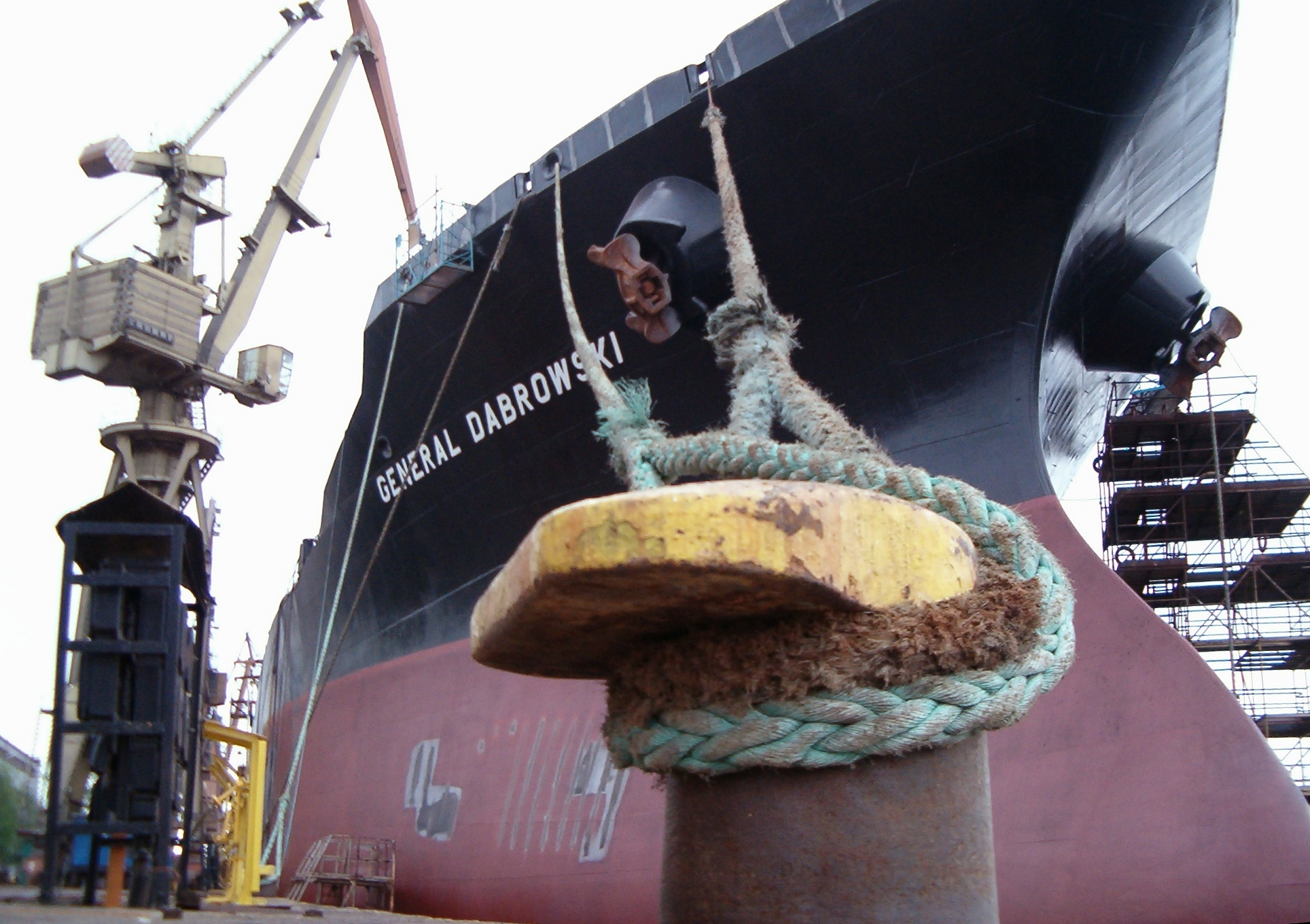 Mooring line